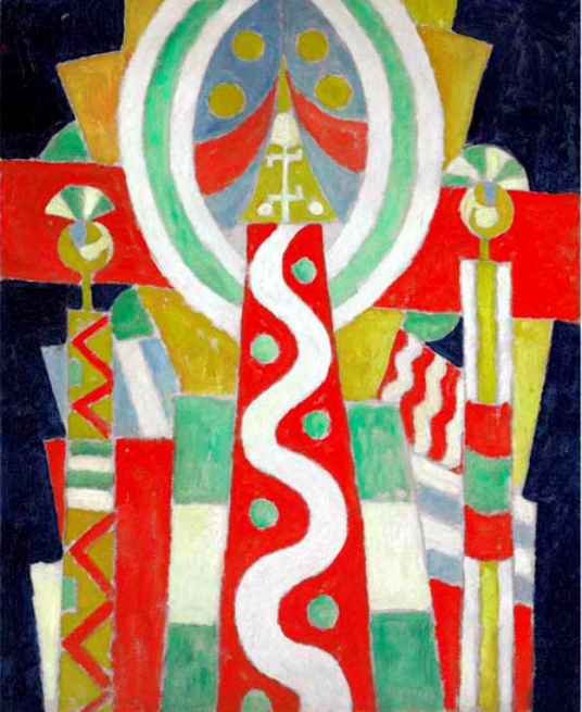 Marsden Hartley: Lighthouse, 1915